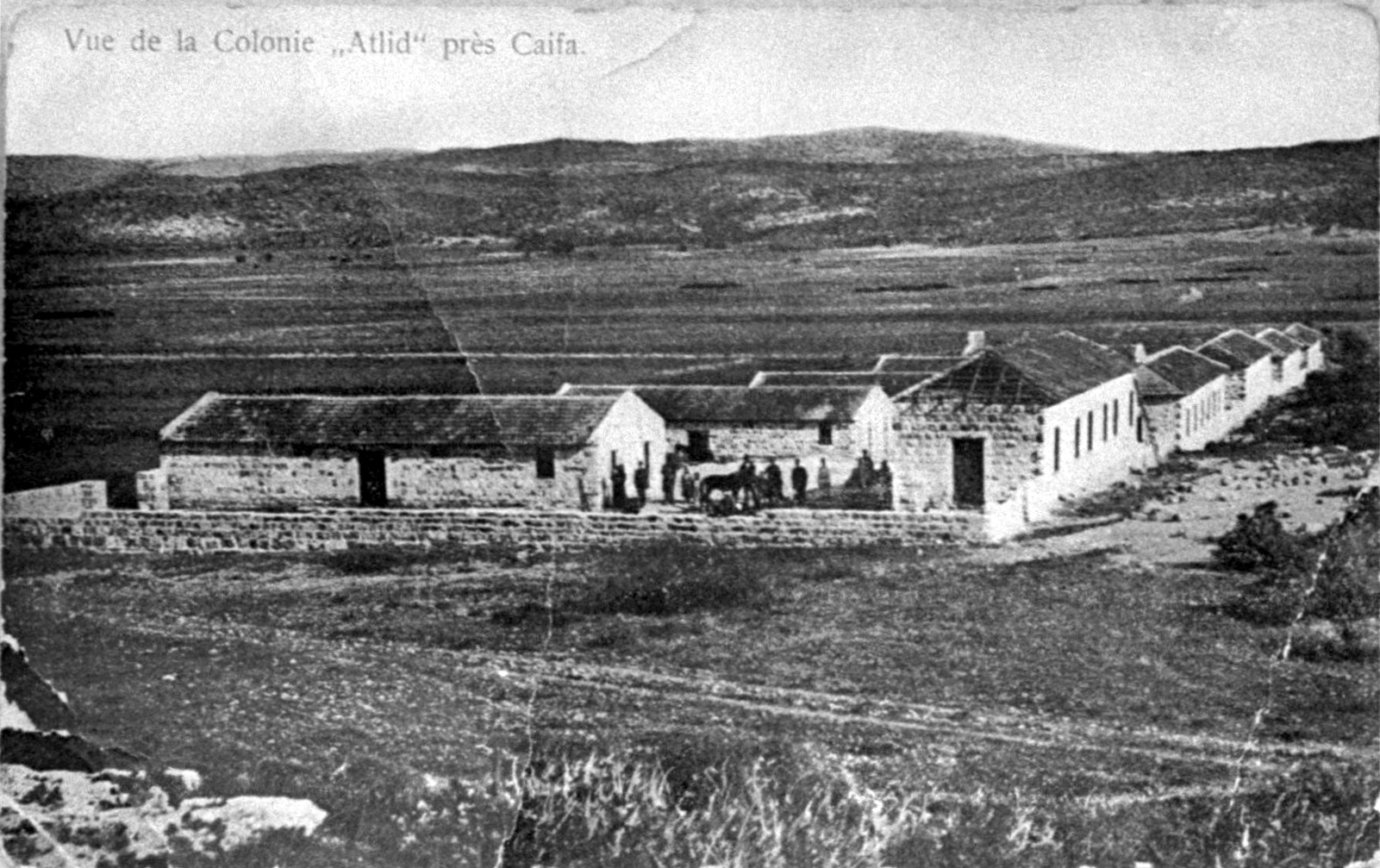 REPRODUCTION OF OLD POSTCARD SHOWING ATLIT IN THE YEAR 1903.